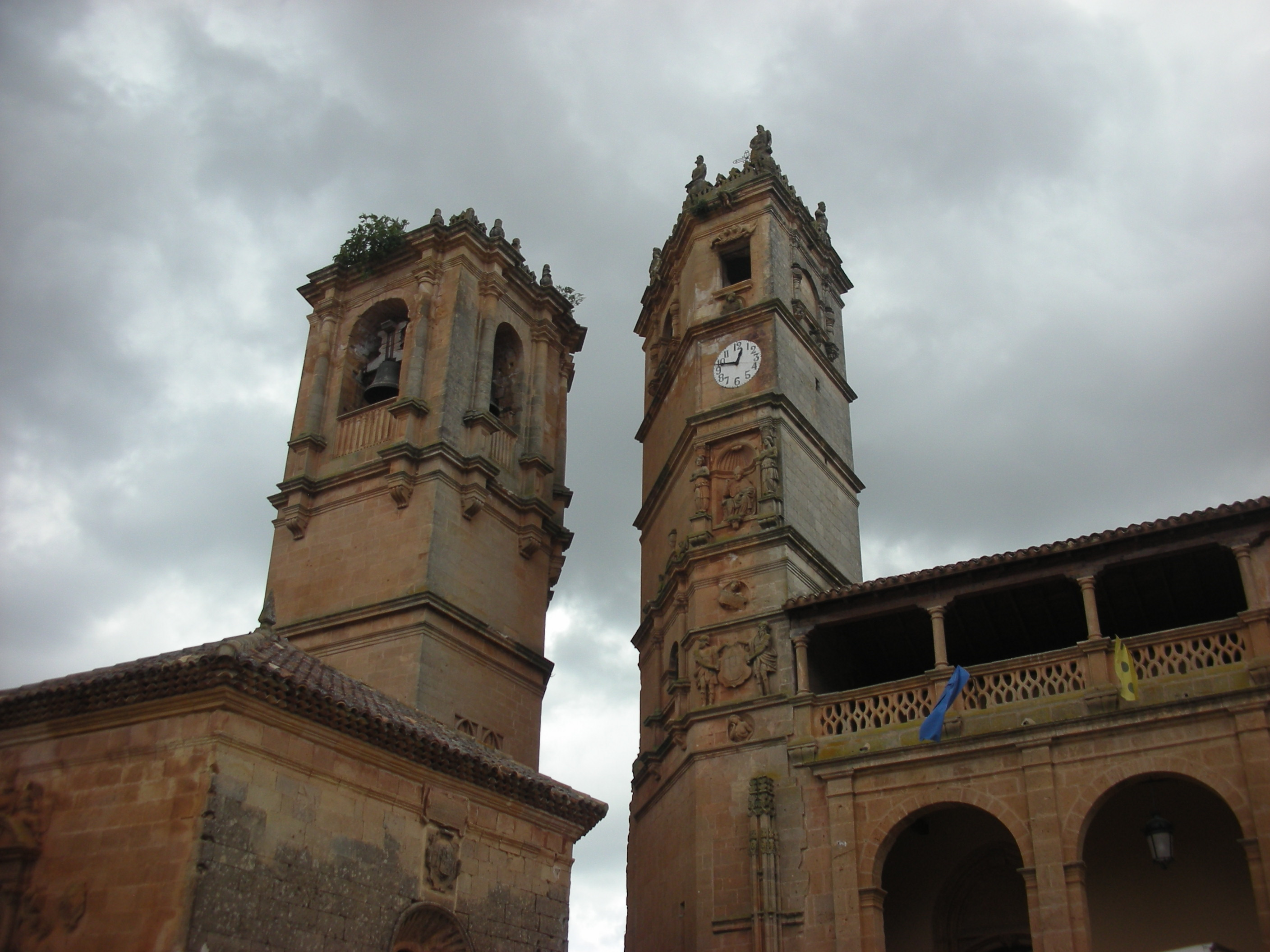 Renaissance towers in Alcaraz main square